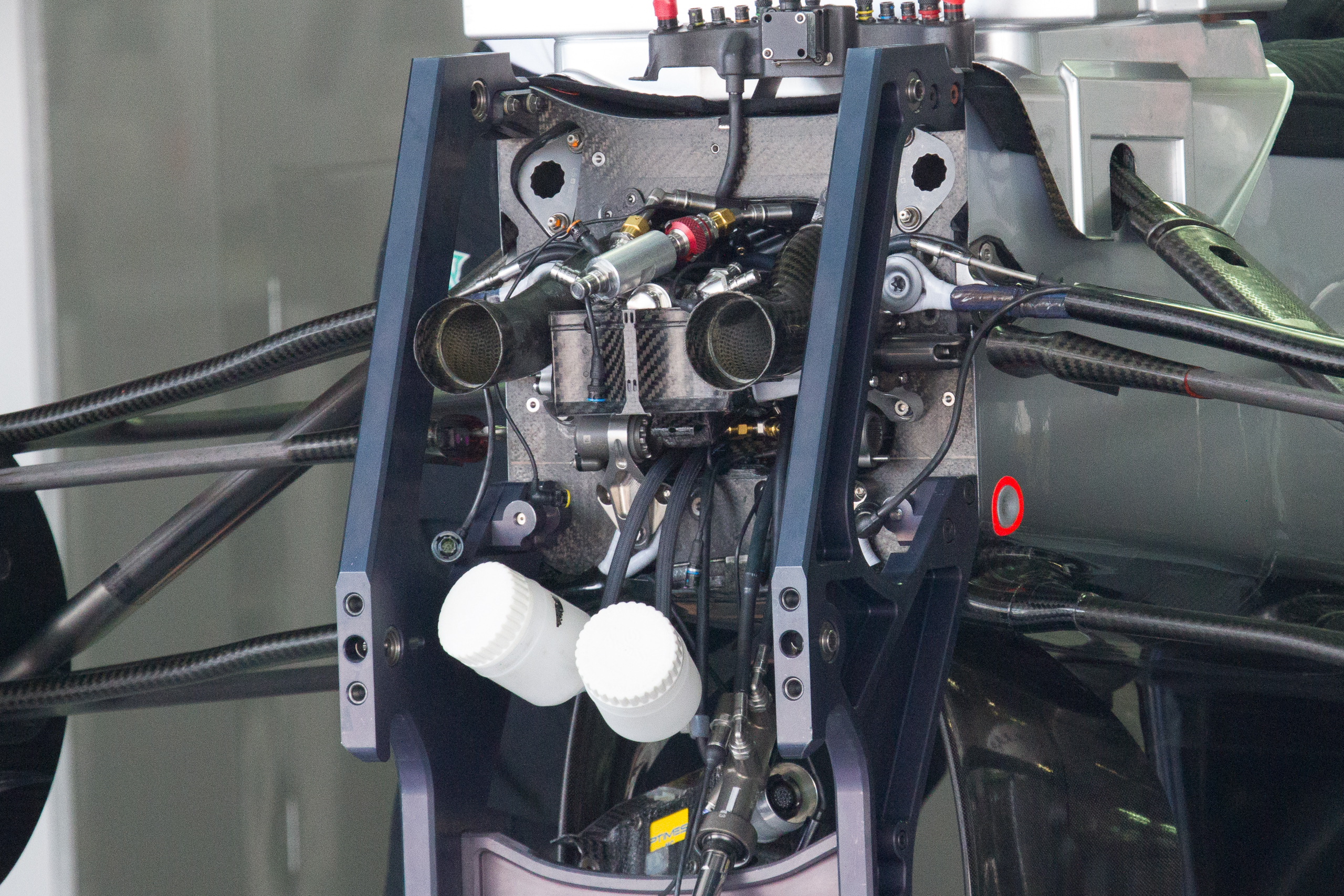 Formula One 2012 Rd.15 Japanese GP: Mercedes F1 W03's DRS pipes at front